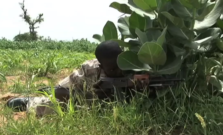 Pro-government Militia members training in Sevare, Mali.